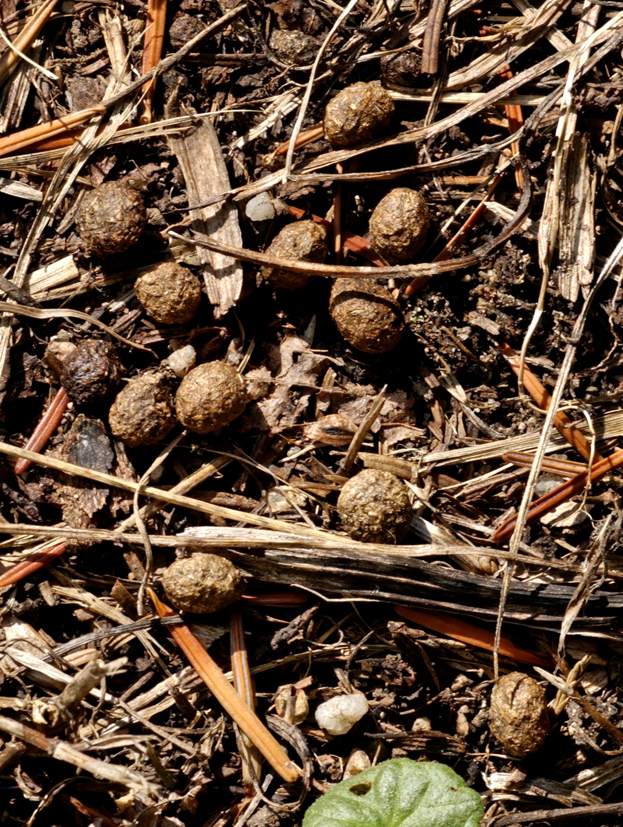 Droppings of a feral rabbit (Oryctolagus cuniculus), Auvergne, France.